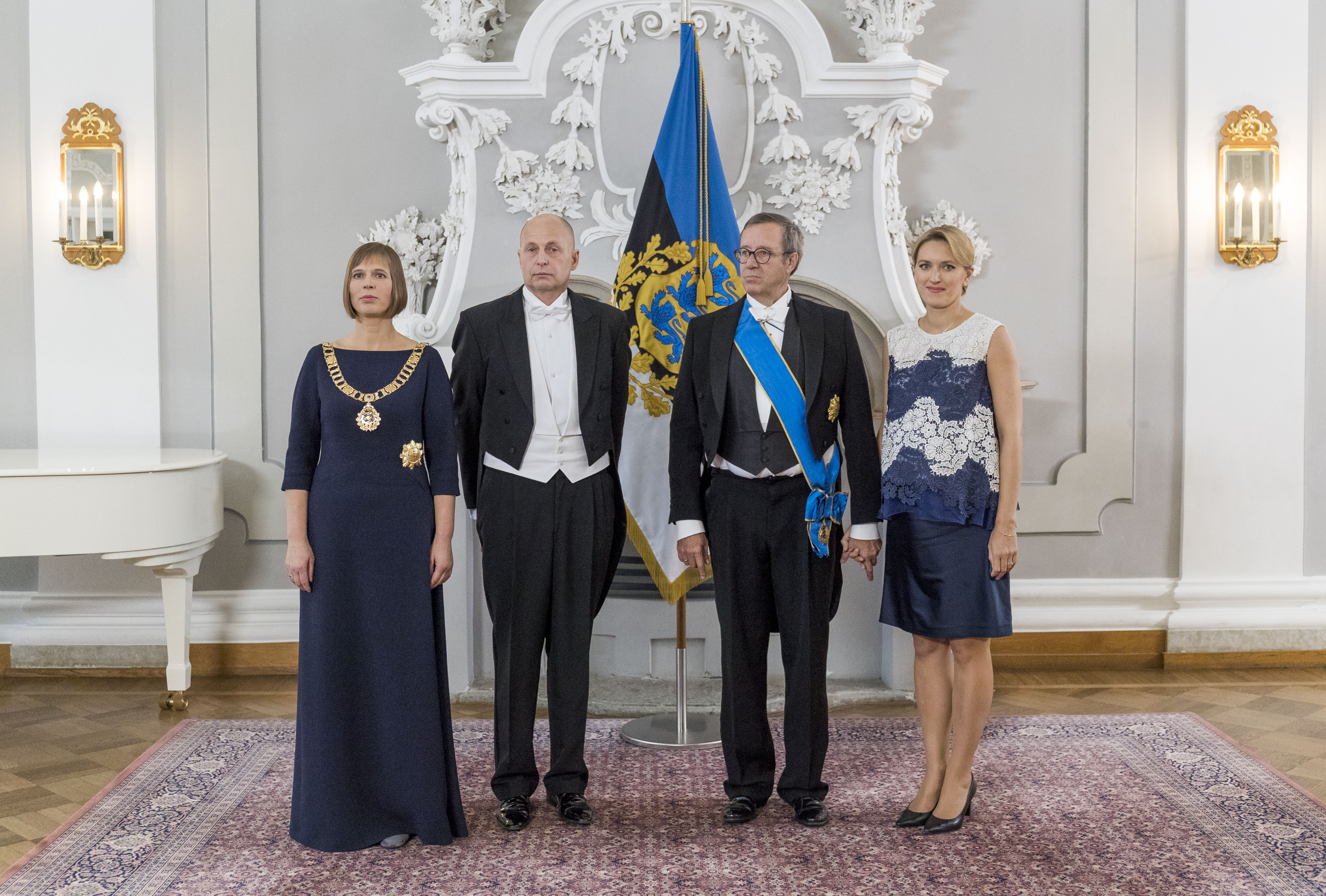 The President of Estonia Kersti Kaljulaid with her spouse Georgi-Rene Maksimovski and the preceding President of Estonia Toomas Hendrik Ilves with his spouse Ieva Ilves at the reception in Kadriorg Palace on October 10, 2016.